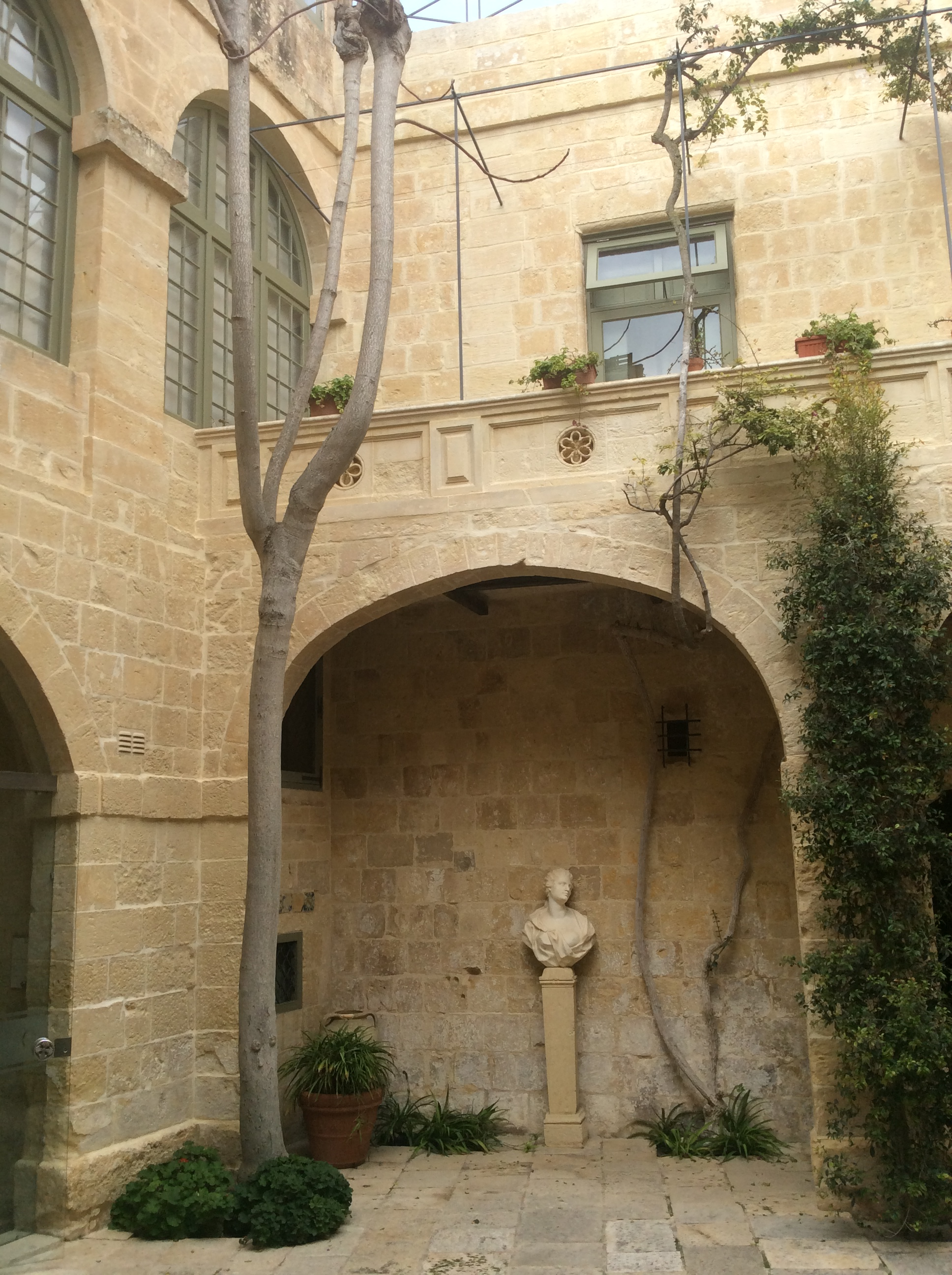 Palazzo Falzon and Garden This media is about Maltese cultural property with inventory number 01193.